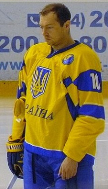 Forwards Andriy Mikhnov #8 and Vadym Shakhraychuk #10 of the Ukraine stands before the friendly game against the Poland on April 10, 2010 at the Terminal Arena in Brovary, Ukraine. Ukraine won the game 2:1.